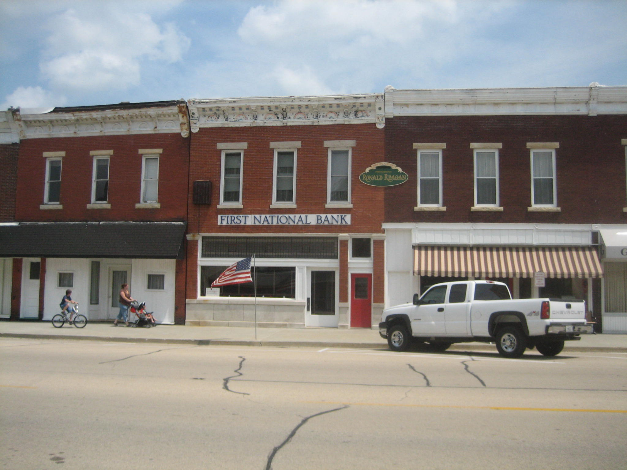 Main Street Historic District, Tampico, Illinois. U.S. National Register of Historic Places. Ronald Reagan Birthplace, First National Bank, 111 S. Main St. (center).